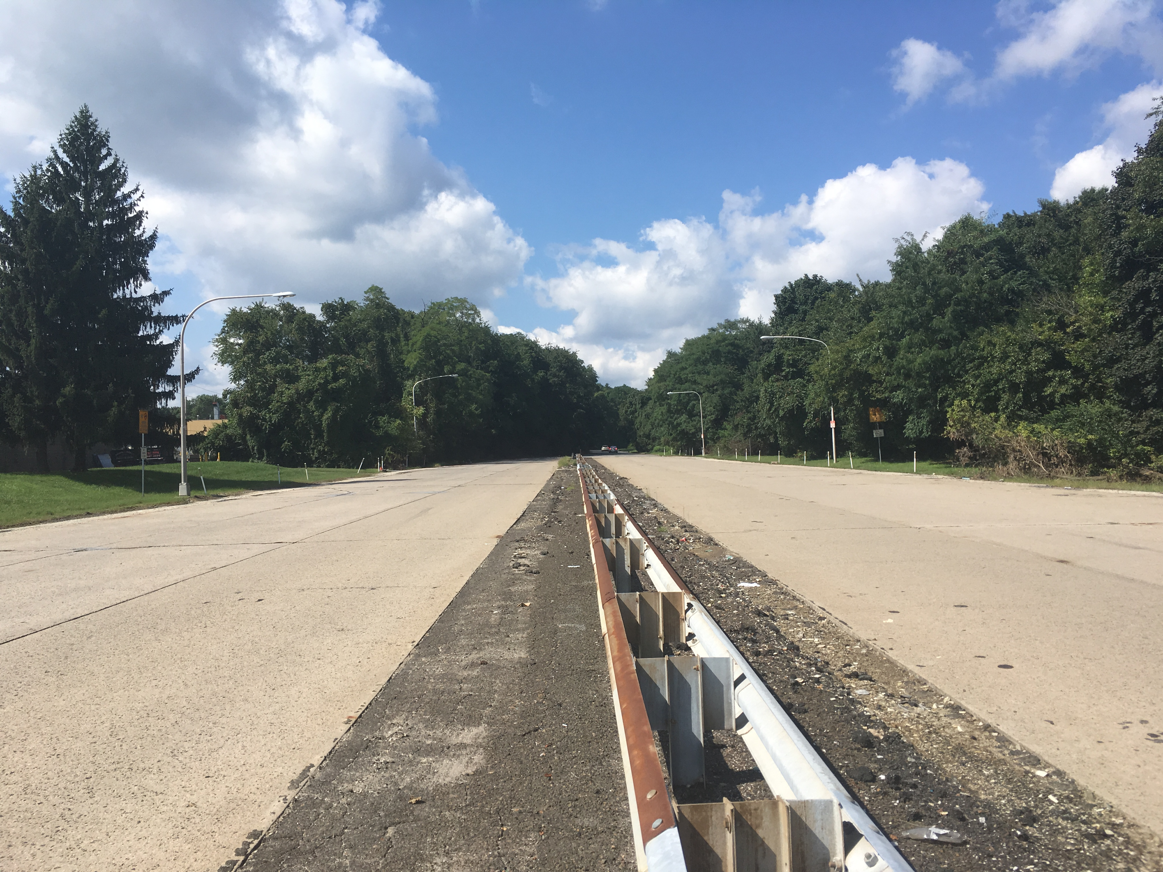 Westbound Woodhaven Road past the intersection with Evans Street in Philadelphia, Pennsylvania. This section of road is the stub end of a cancelled freeway that was supposed to carry Pennsylvania Route 63 between U.S. Route 1 and Philmont Avenue.